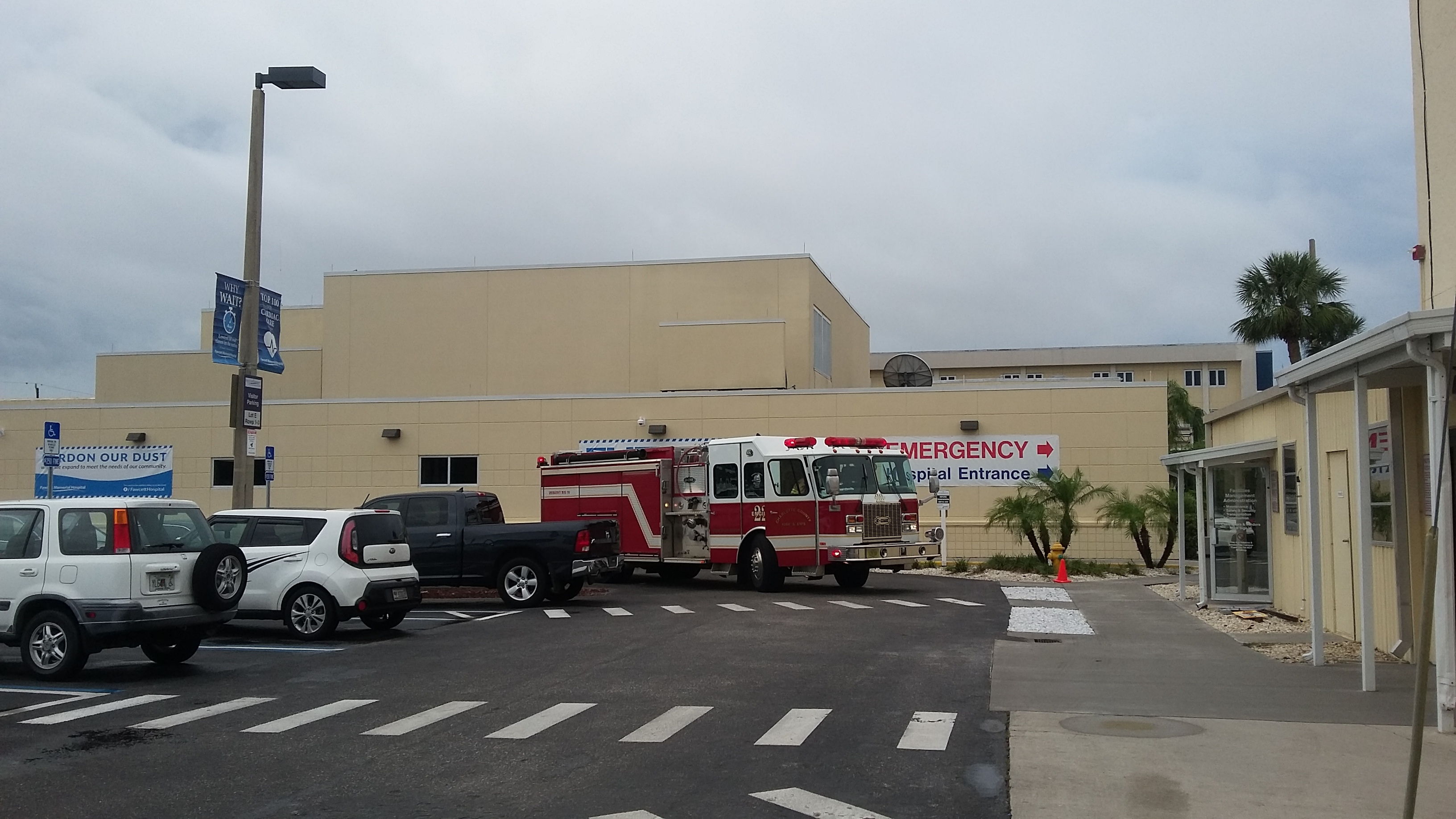 A Charlotte County fire apparatus parked at Fawcett Memorial Hospital in Port Charlotte, Florida, responding to a fire alarm activation.